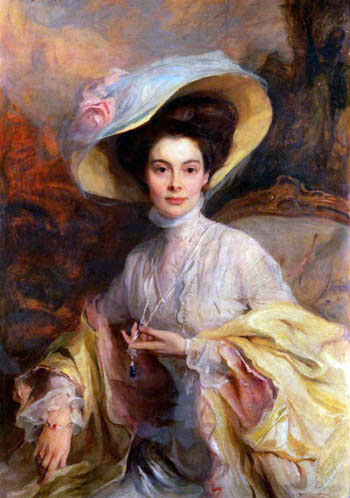 Crown Princess Cecilie of Prussia